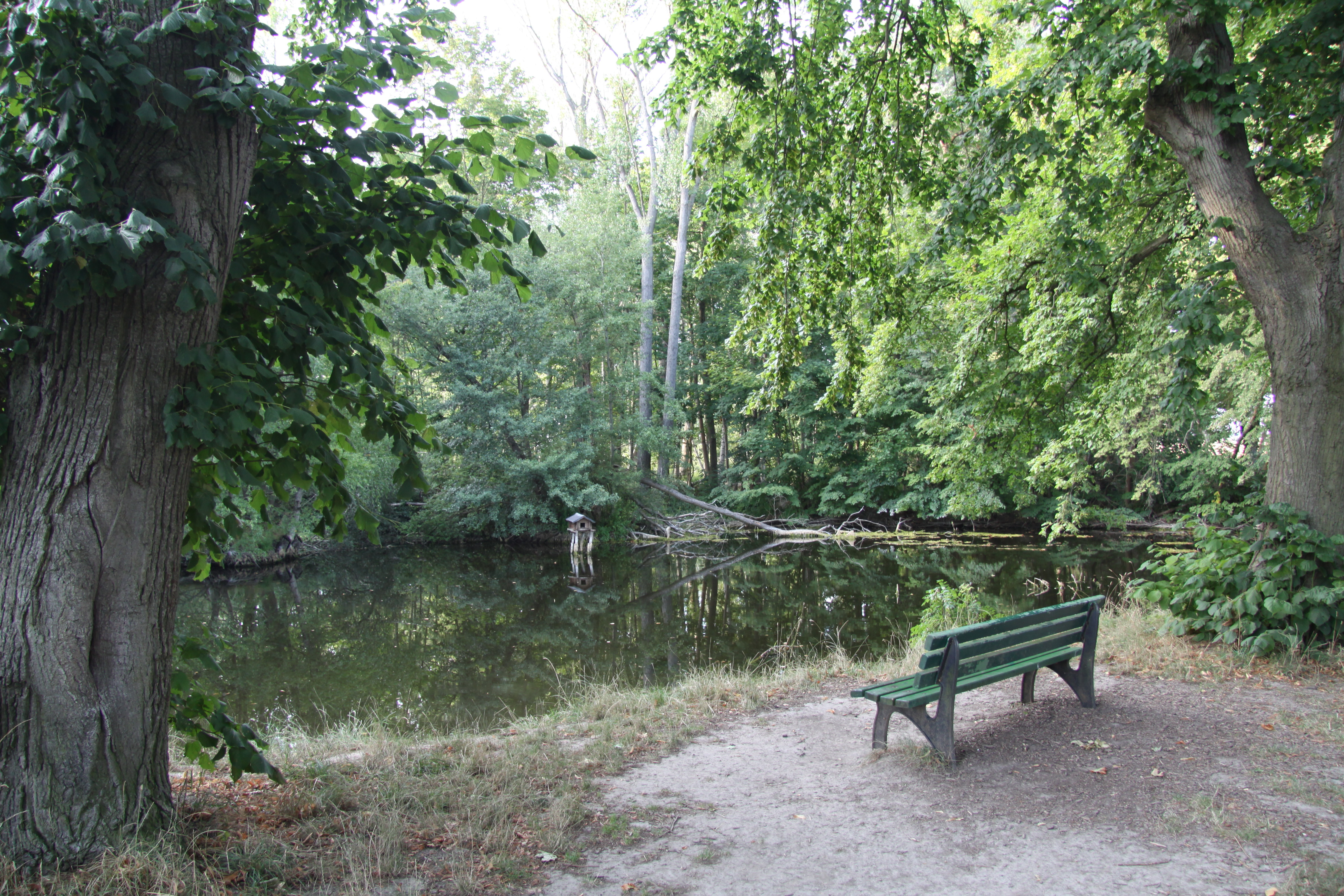 Vilgensea is lying between the villages Dettum und Ahlum in Lower Saxon near Wolfenbüttel